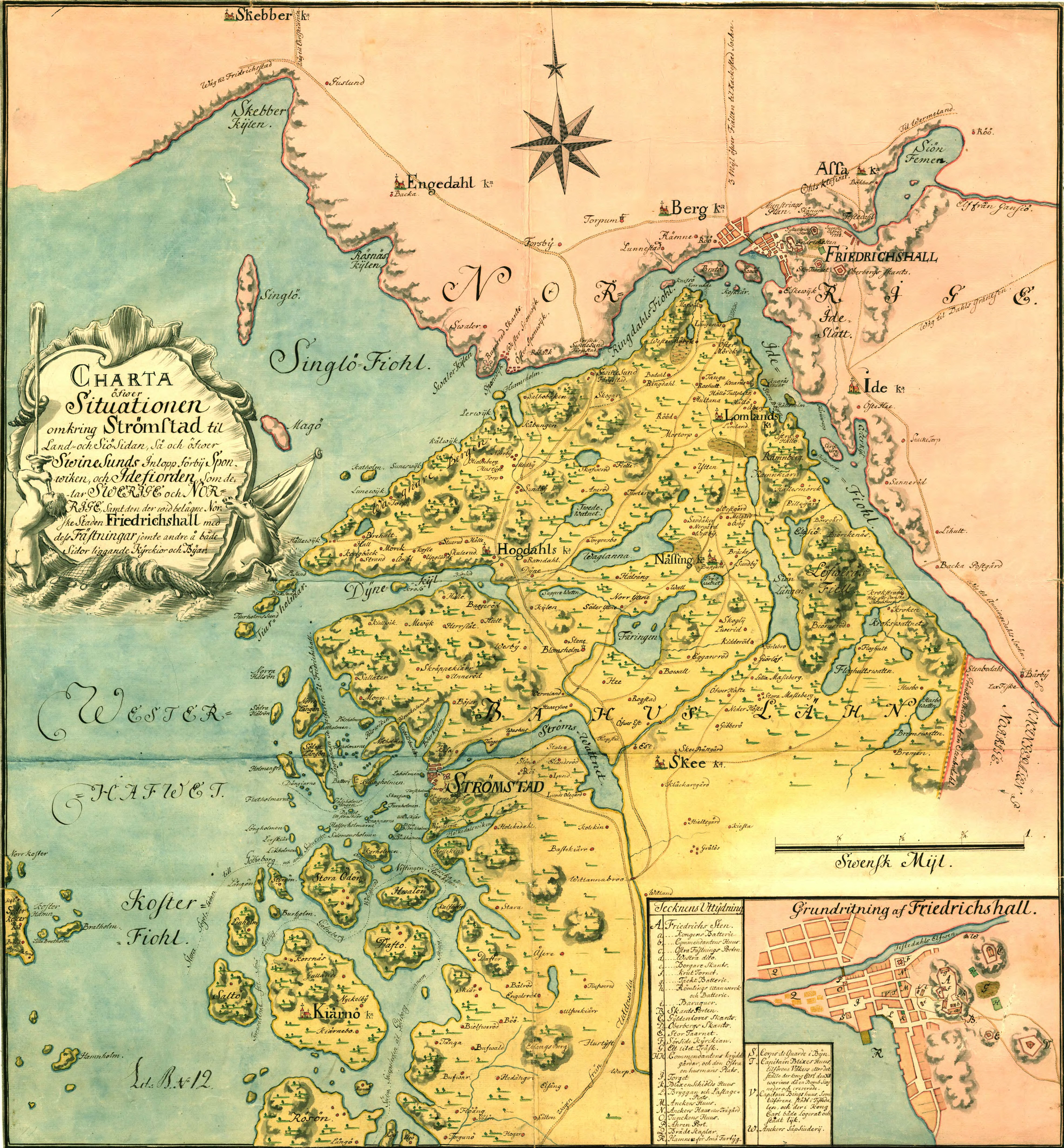 Map showing the borderarea between the swedish county Bohuslän, and Norway. Detail of the norwegian defenses at Friedrichshall, in present day the town Halden.